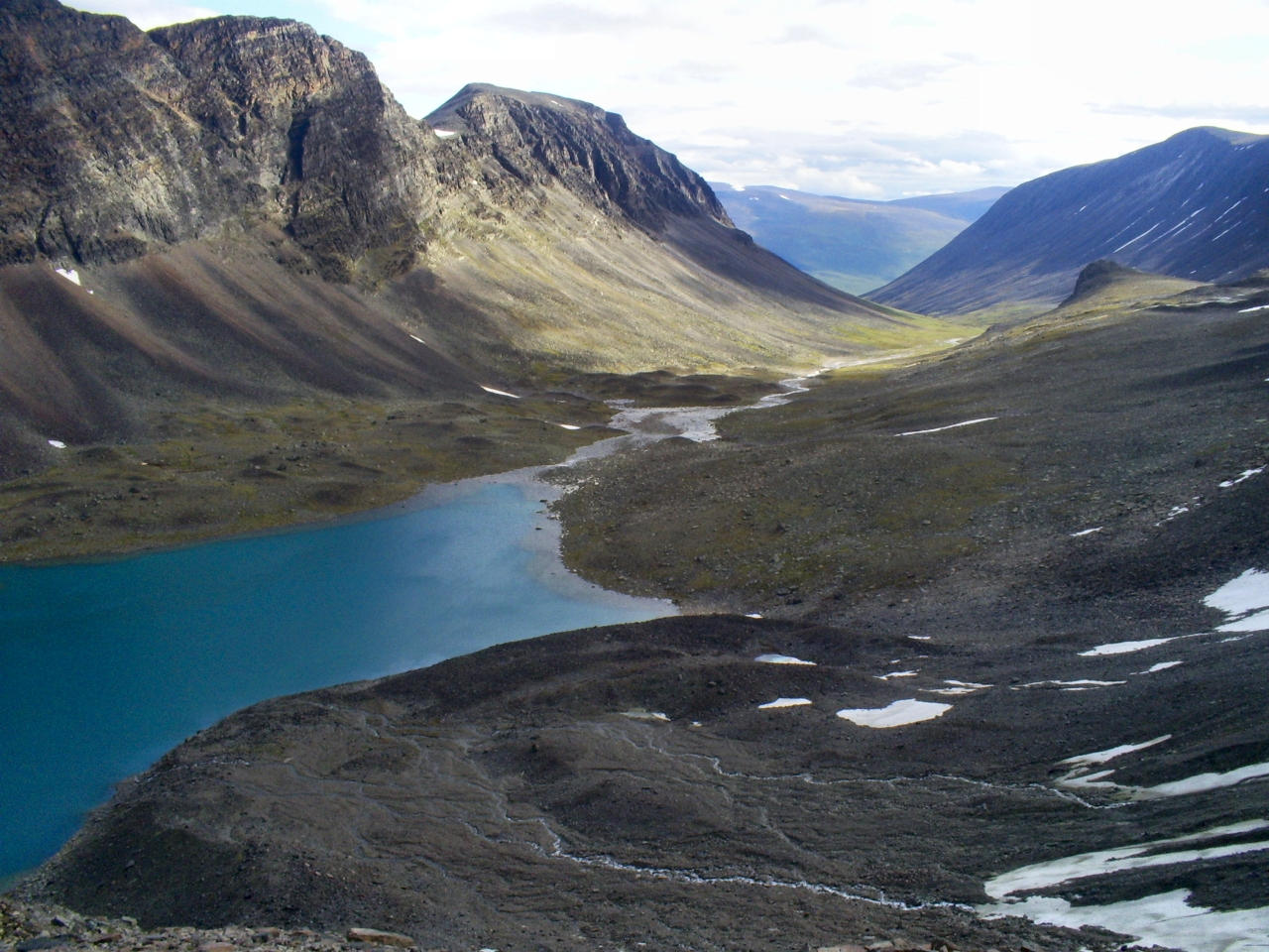 Standing in the middle of Unna Räitavagge looking eastward from a big drop. Unna Räitavagge is a valley in the Kebnekaise area, Sweden.